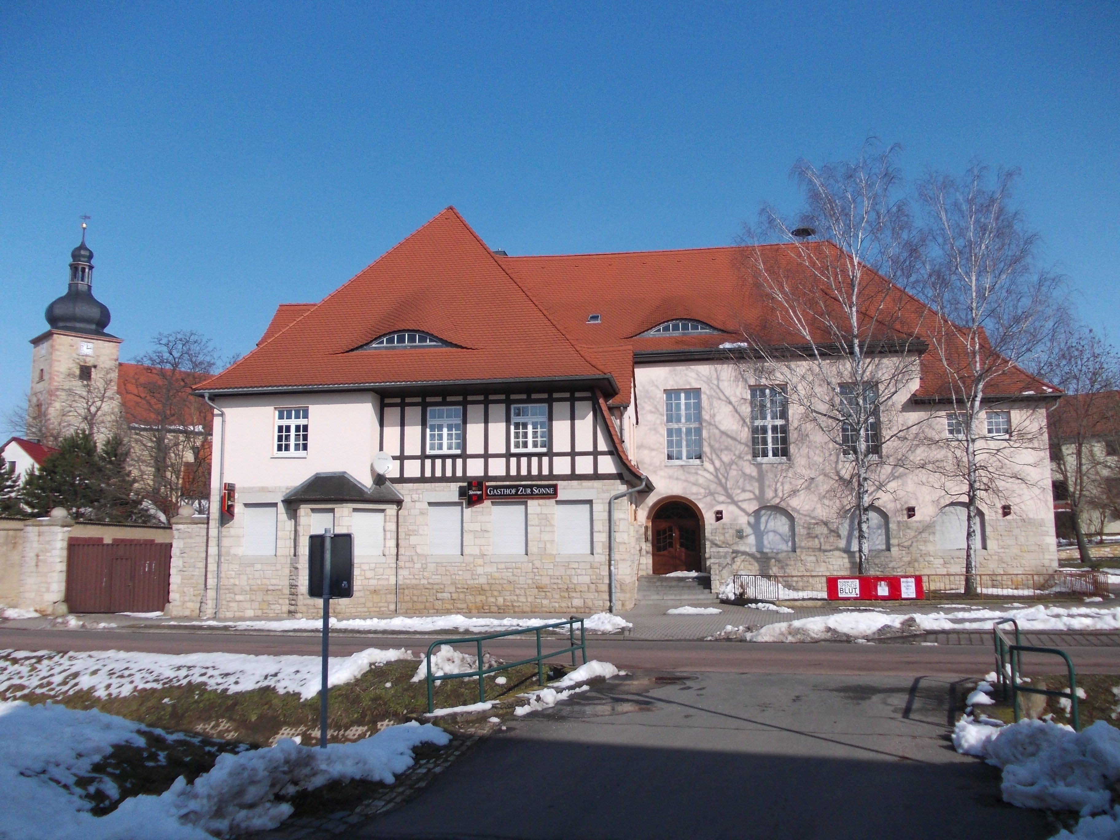 Zur Sonne (The Sun) inn in Nemsdorf (Nemsdorf-Göhrendorf, district of Saalekreis, Saxony-Anhalt)